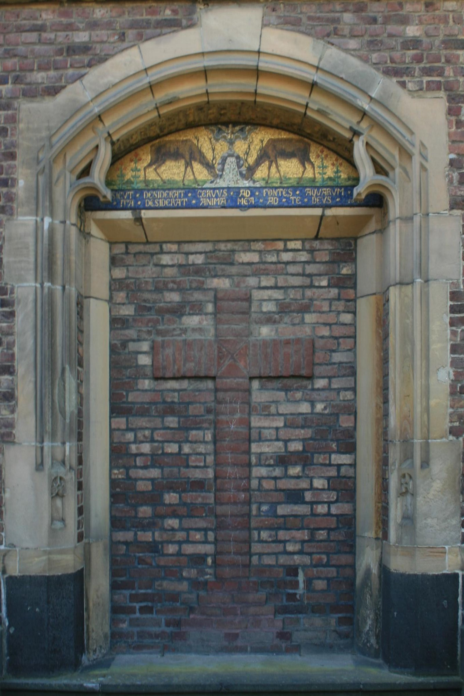 Cultural heritage monument No. 14 in Niederzier